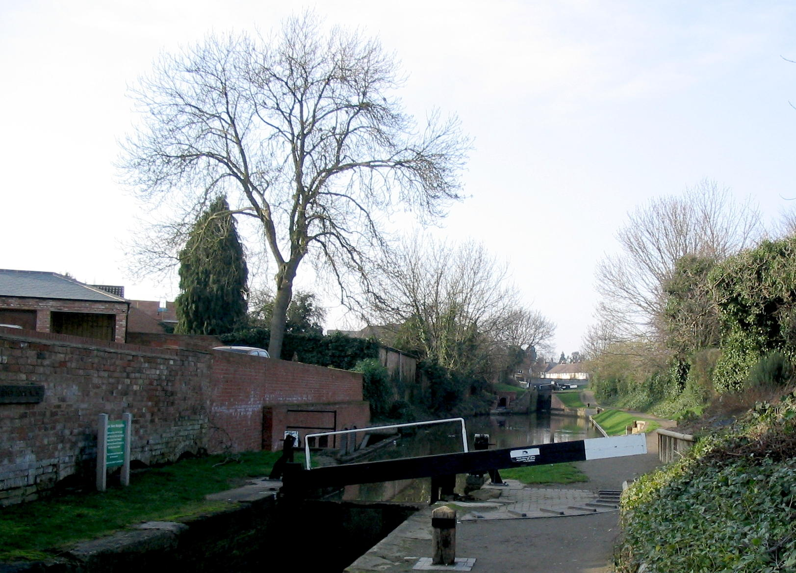 A quiet stretch of the Stratford-upon-Avon Canal in Stratford-upon-Avon, Warwickshire, England, including a lock gate in the foreground and another lock in the distance. Grid ref SP203553. Looking northeast. Photograph taken by Trilobite on 16 February 2004, mid-afternoon.